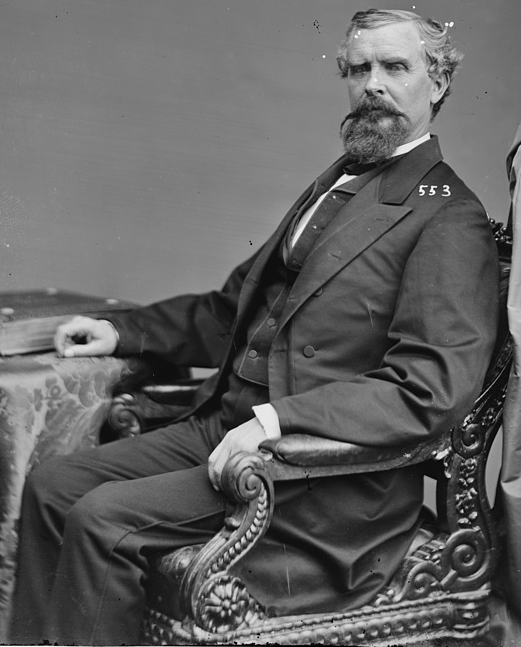 Kentucky Congressman Asa Porter Grover